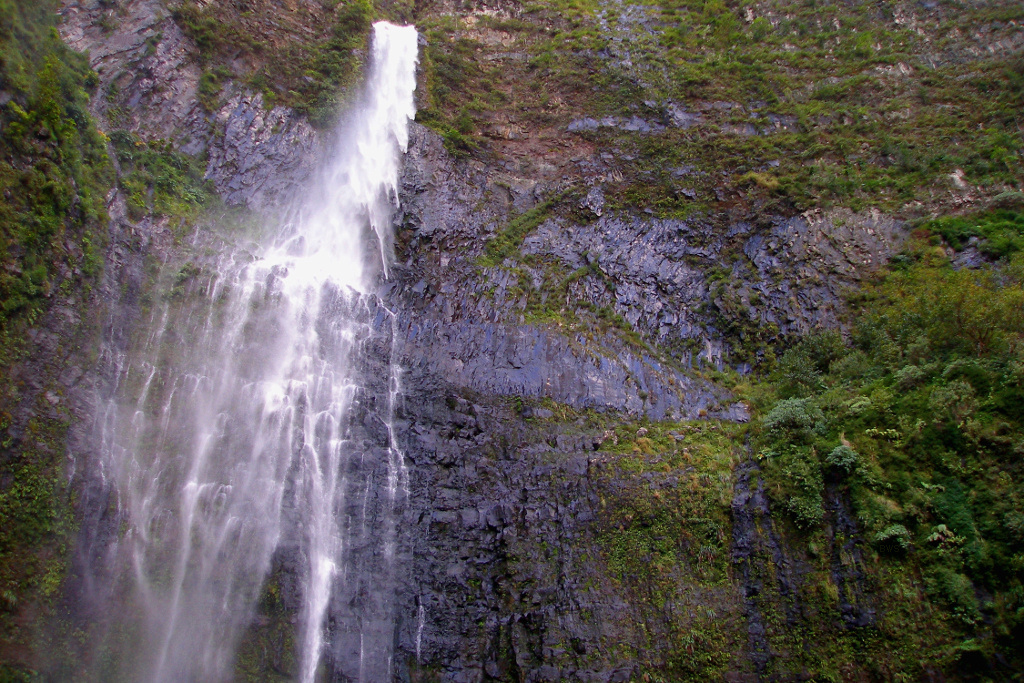 Hanakapi'ai Falls, Kauai, Hawaii, USA